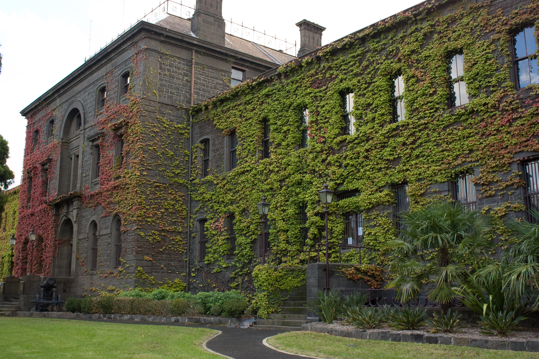 The Victoria Barracks in Melbourne, Australia is a magnificent old bluestone building, with a facade that's covered in Boston Ivy (Parthenocissus tricuspidata).